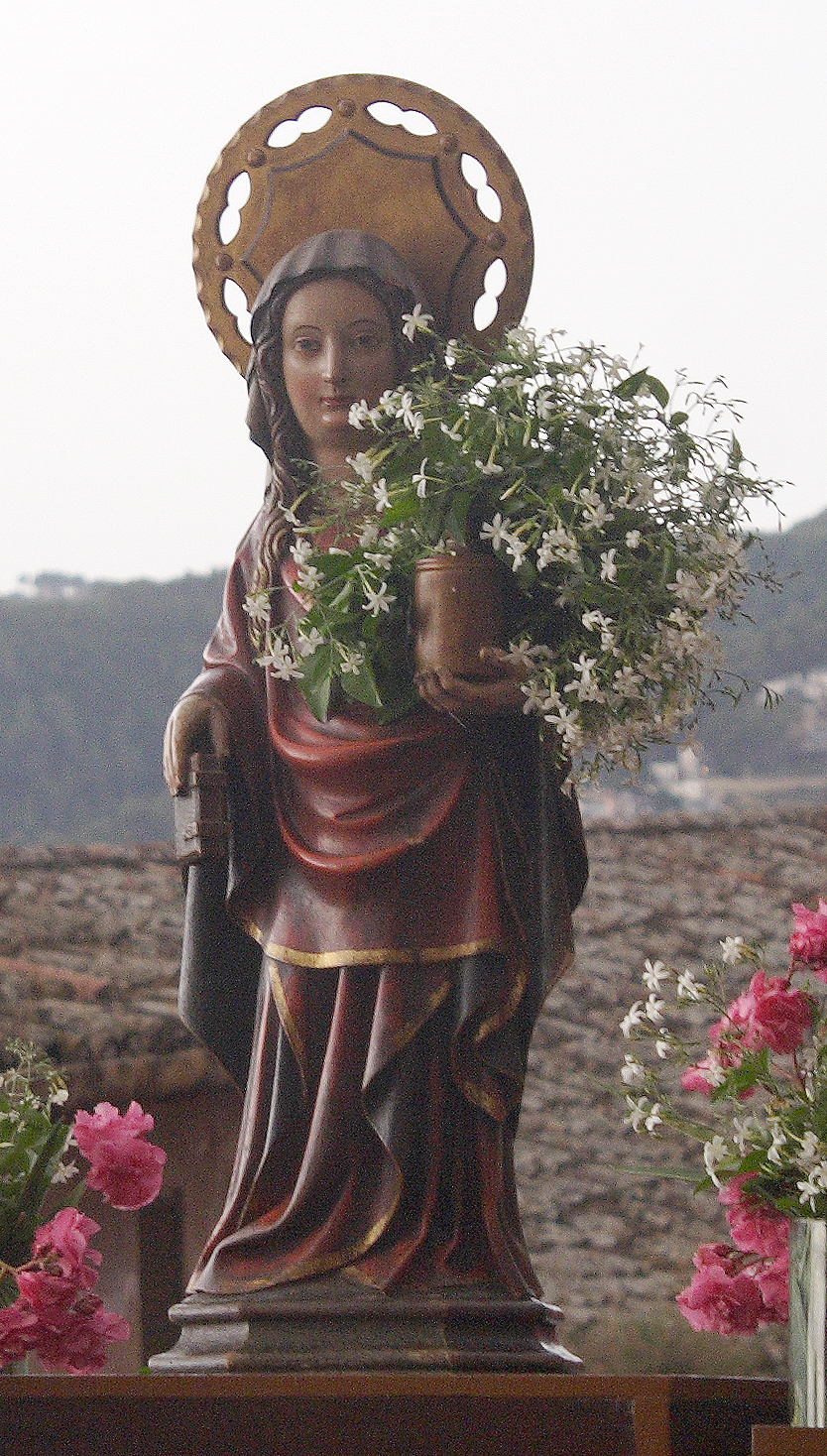 Imagen gotica de Santa Magdalena de Corbera de Llobregat